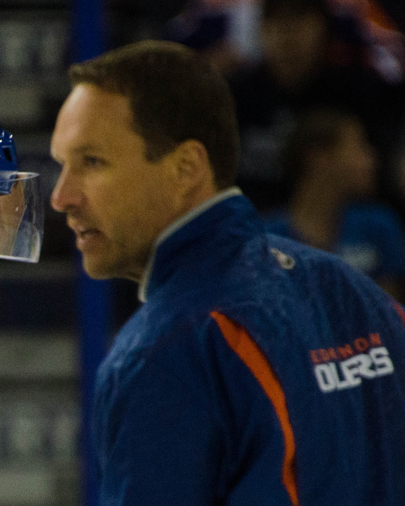 Gerry Fleming at the 2015 Edmonton Oilers Development Camp, July 4, 2015.